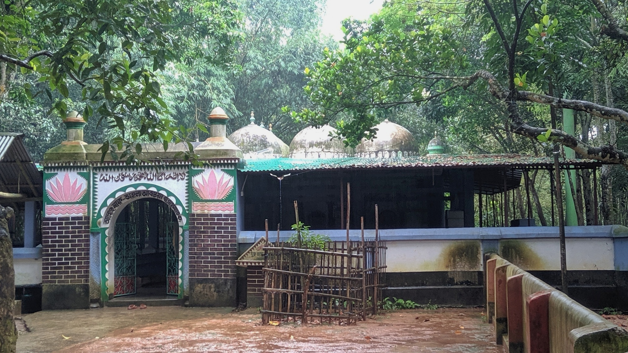 Laldighi Nine domed Mosque